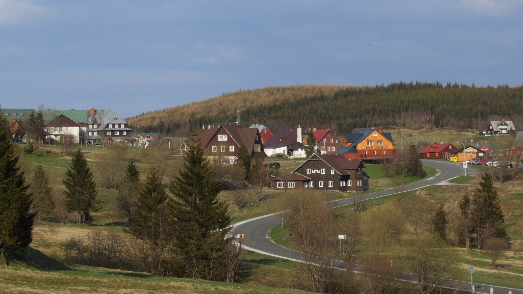 Village Malá Úpa (Klein Aupa) in Krkonoše (Riesengebirge)